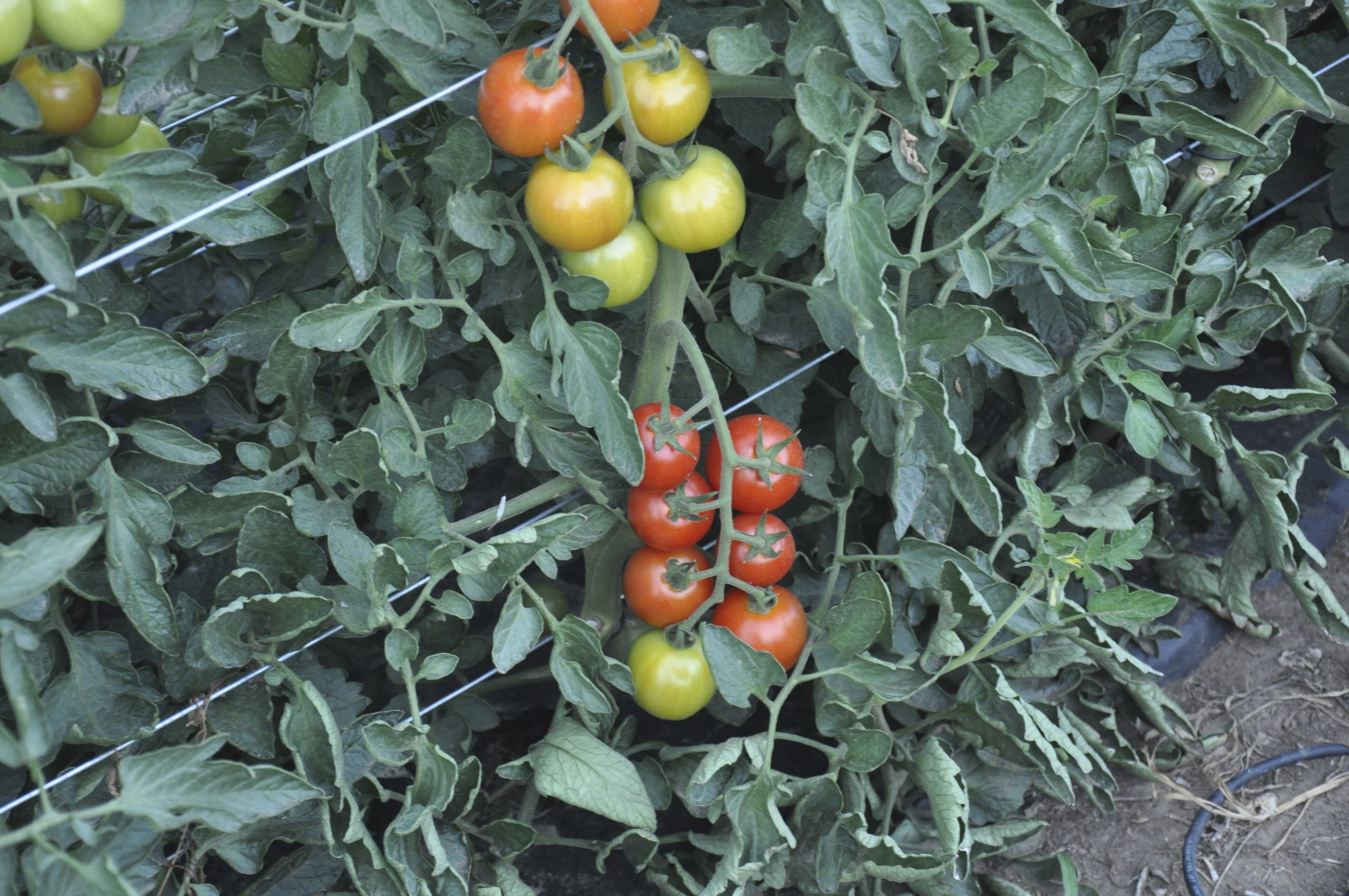 Adoration Tomato being grown on trellis